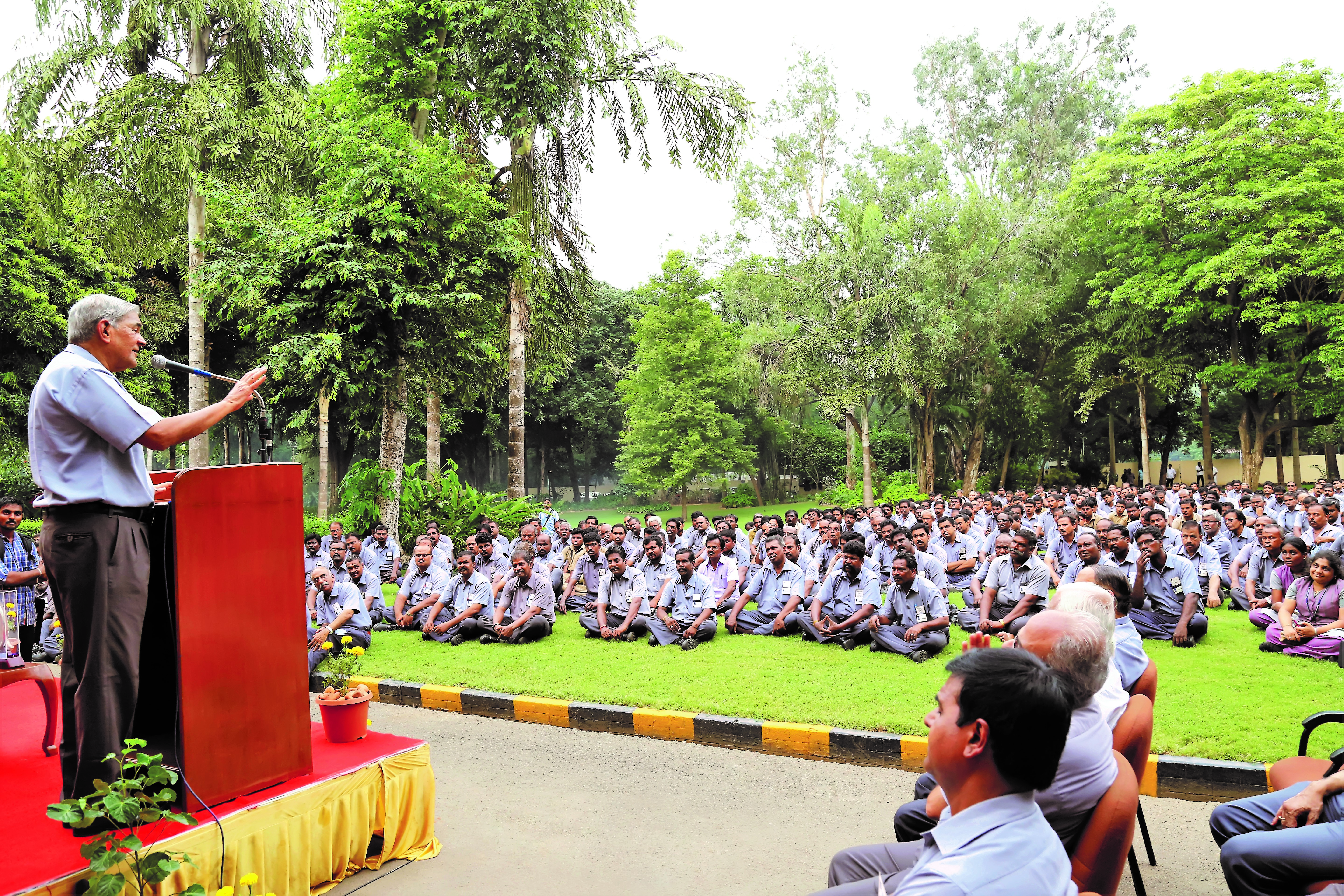 Annual Communication meeting with Workforce